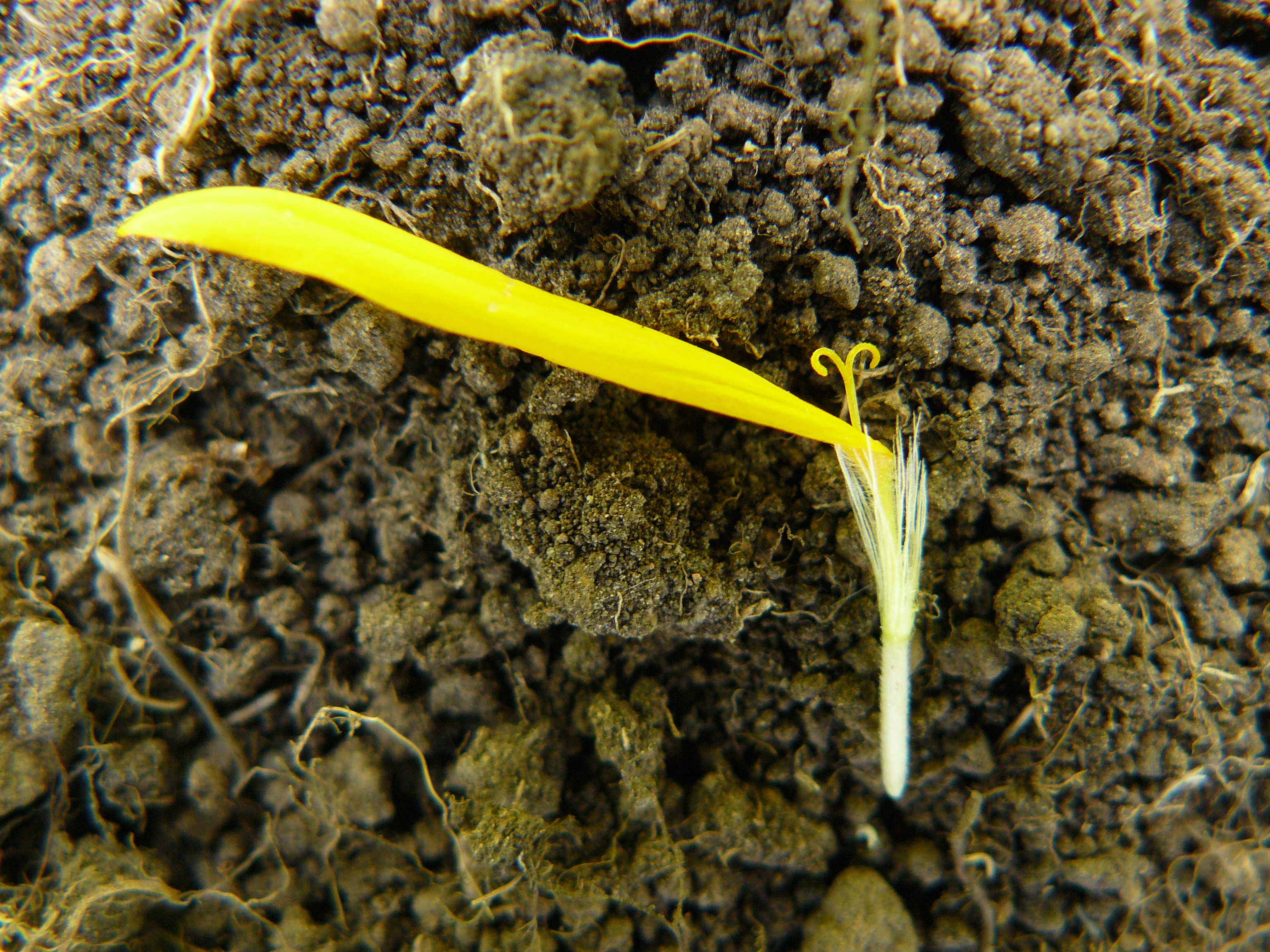 One flower of Arnica montana, Markstein, France